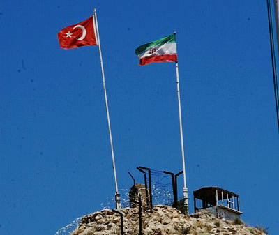 Borderline of Turkey and Iran